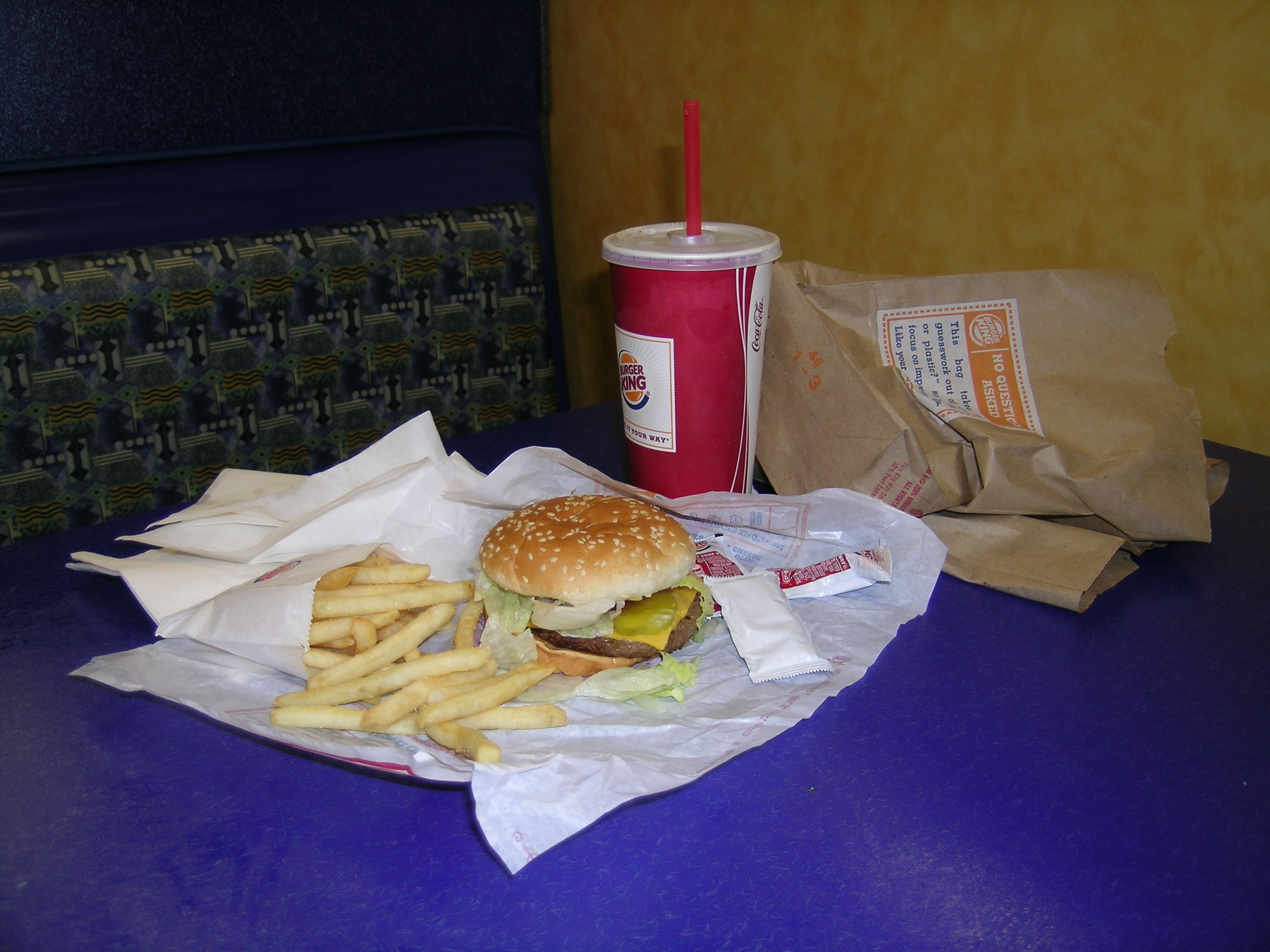 A meal from Burger King on Huntington Ave near Symphony Hall in Boston including small french fries, a Whopper, Jr., Barq's Root Beer, and packets of Heinz ketchup. March 2008 photo by John Stephen Dwyer